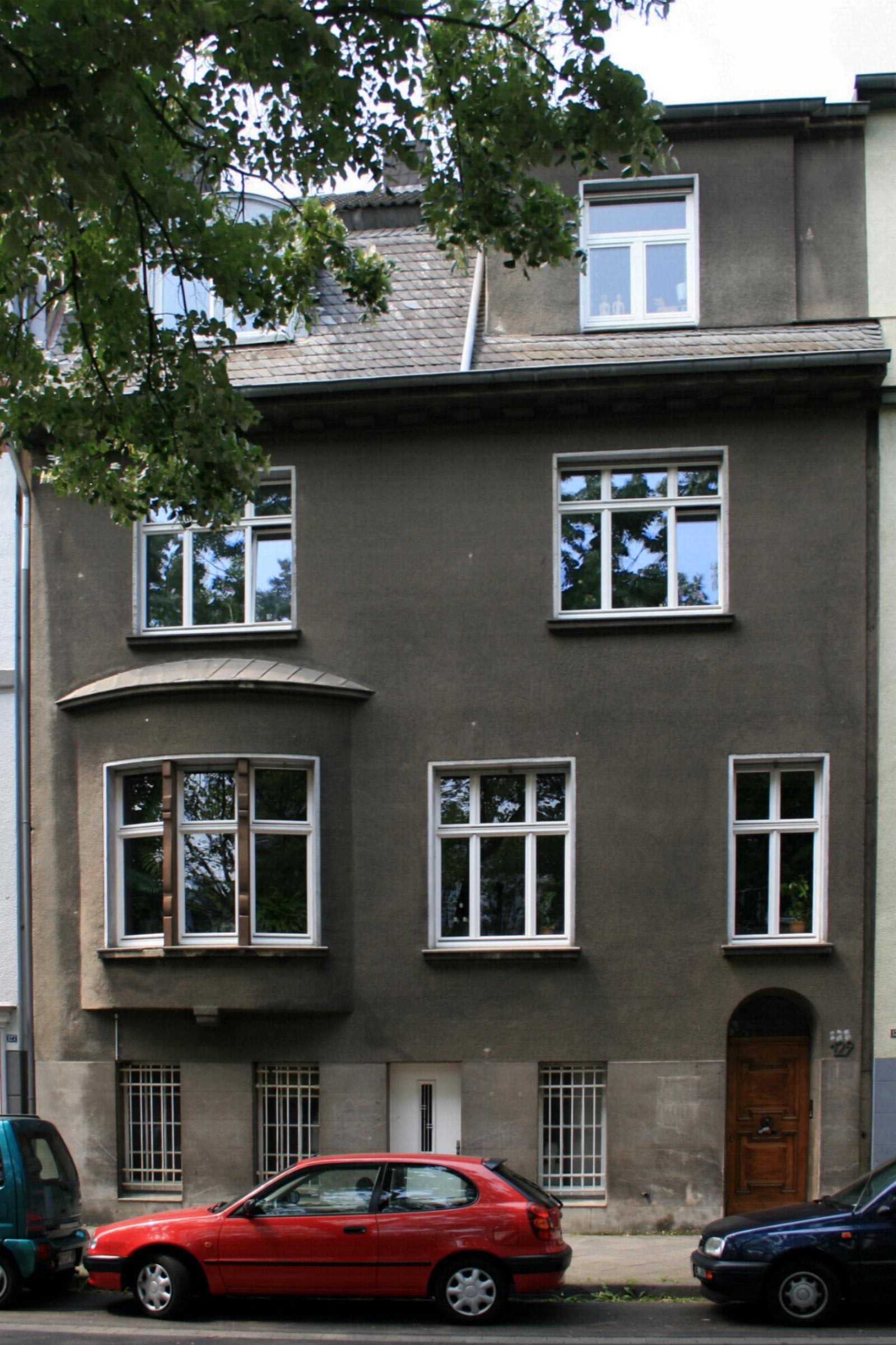 Cultural heritage monument No. B 092 in Mönchengladbach